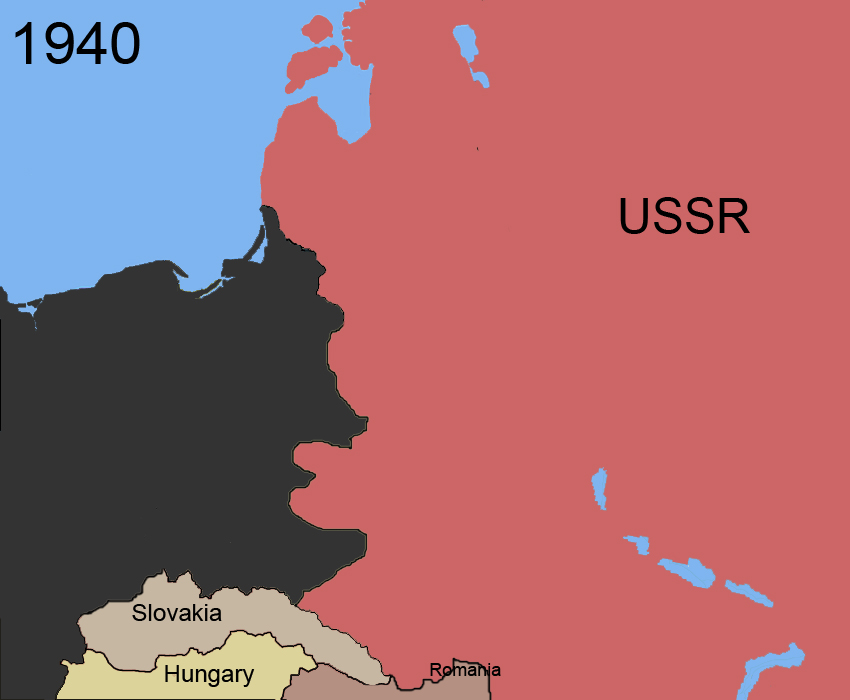 The USSR invades, Lithuania, Estonia, and Lithuania. On June 26, 1940, at 22:00, Soviet People's Commissar Vyacheslav Molotov presented an ultimatum note to Gheorghe Davidescu, Romanian ambassador to Moscow, in which the Soviet Union demanded the evacuation of the Romanian military and administration from Bessarabia and from the northern part of Bukovina,[10] with an implied threat of invasion in the event of non-compliance.